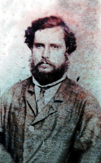 Primer Europeo en Camiri